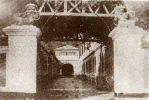 Gate of Mawei Naval Academy